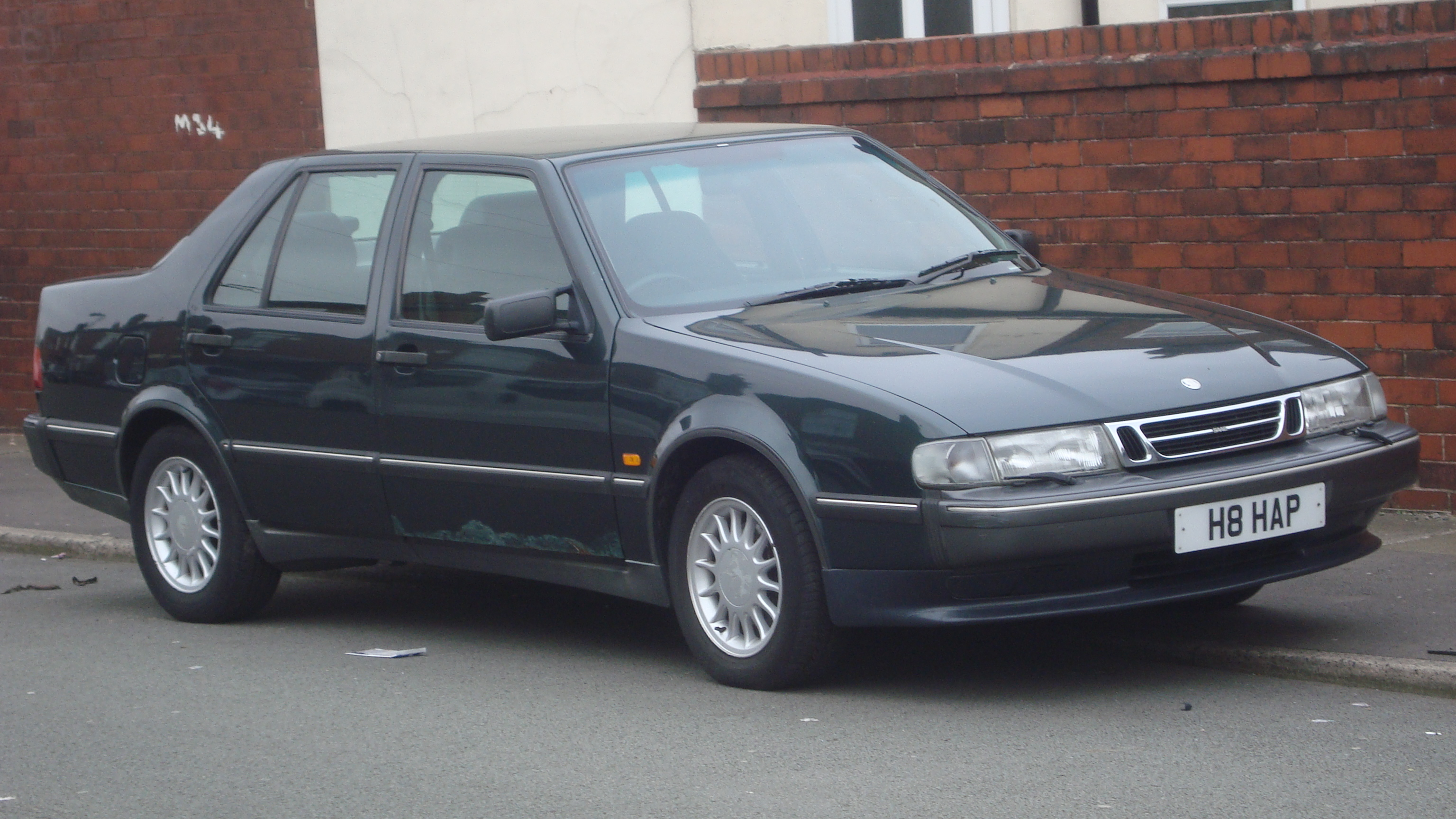 First registered in the UK in 1997